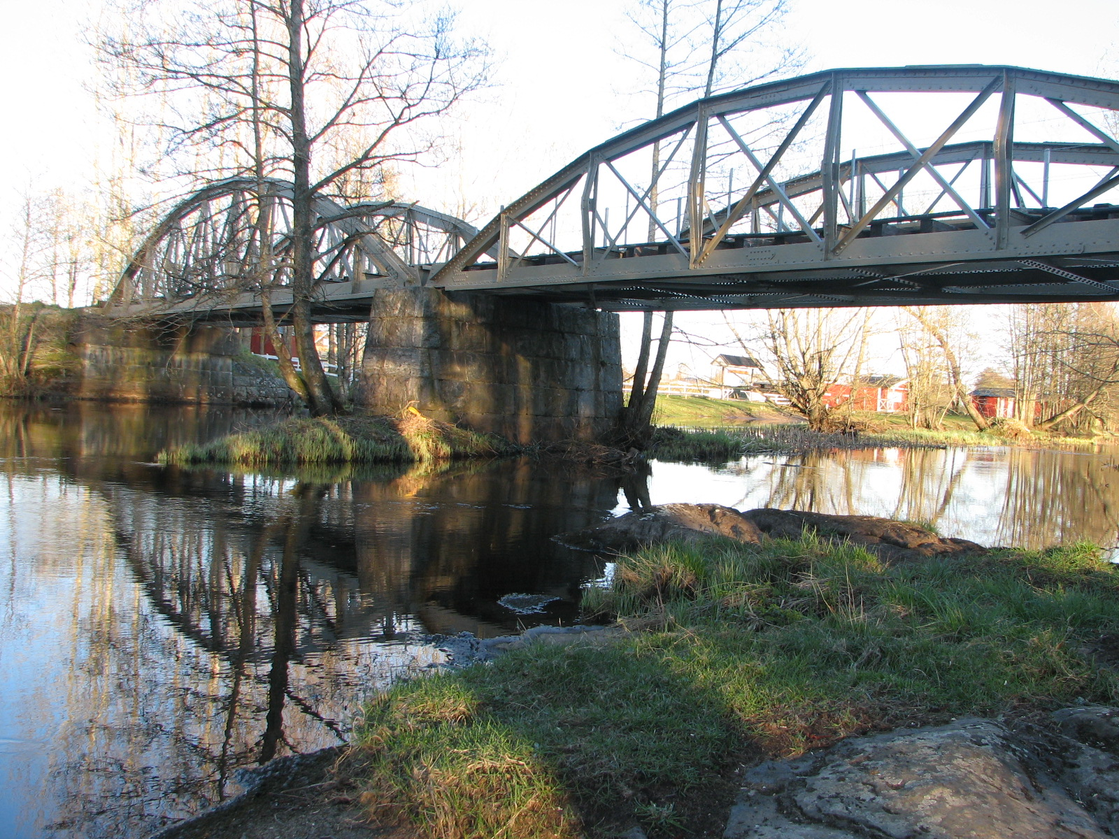 Old railway bridge west of Tråvad in Vara municipality. Now used as bike and pedestrian bridge. Crosses the river Lidan.